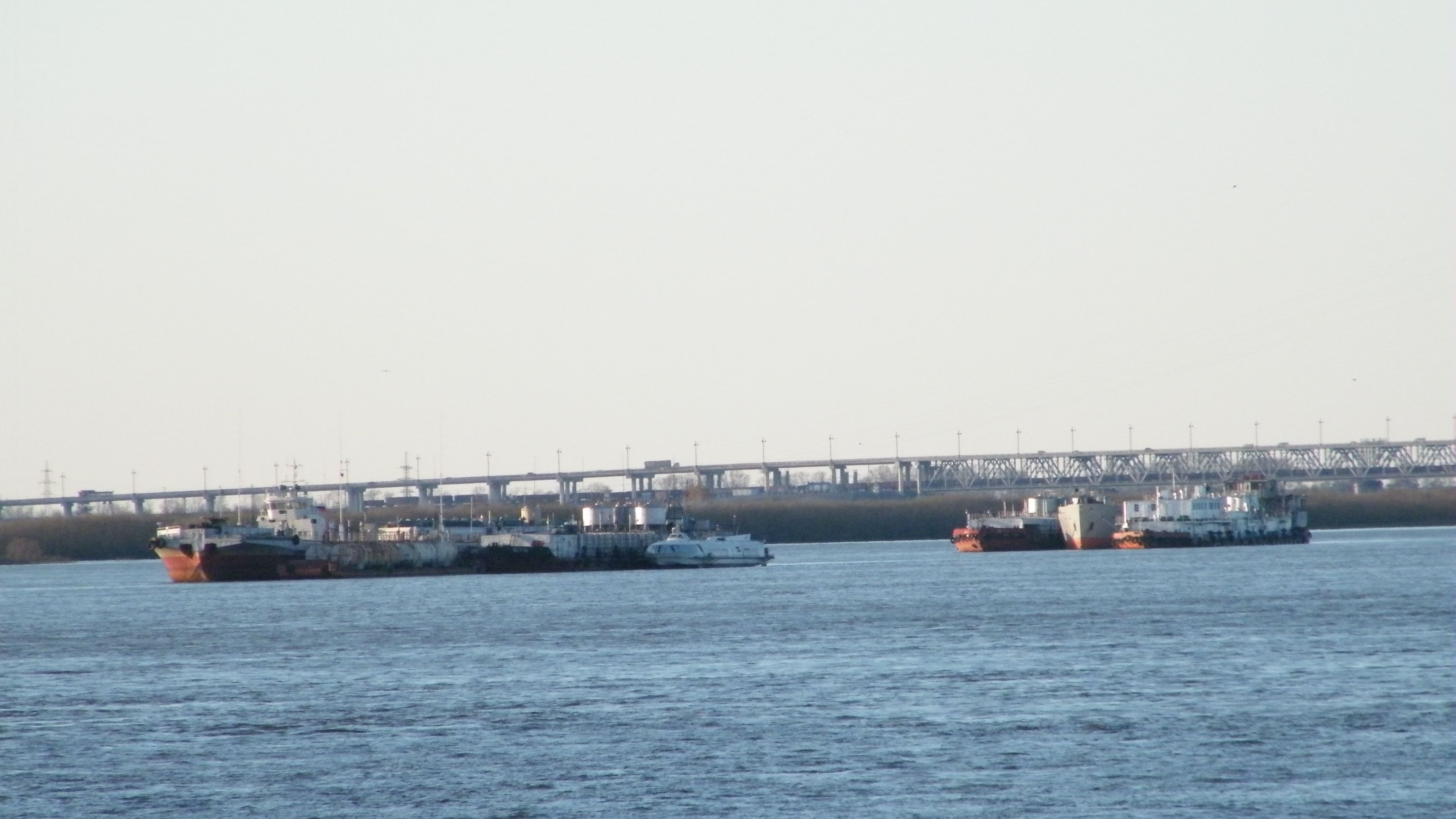 Amur River